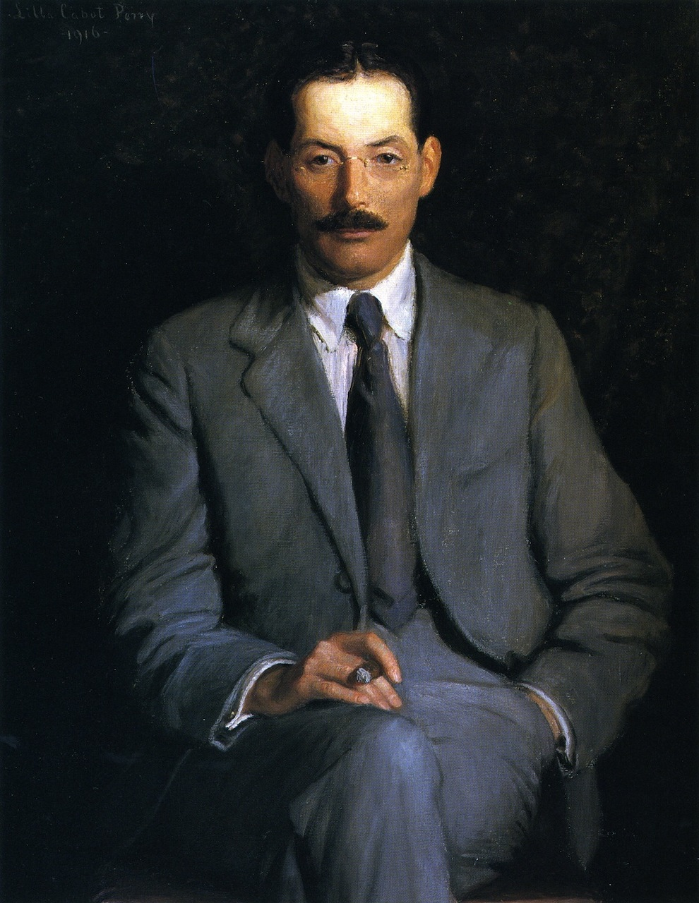 Portrait of Edwin Arlington Robinson